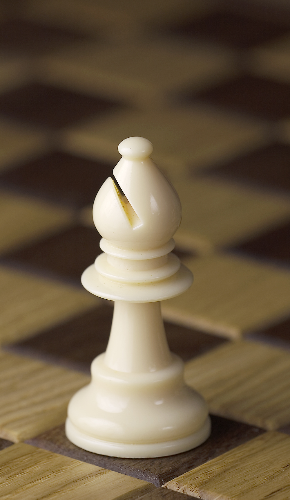 Chess piece - White bishop, Staunton design